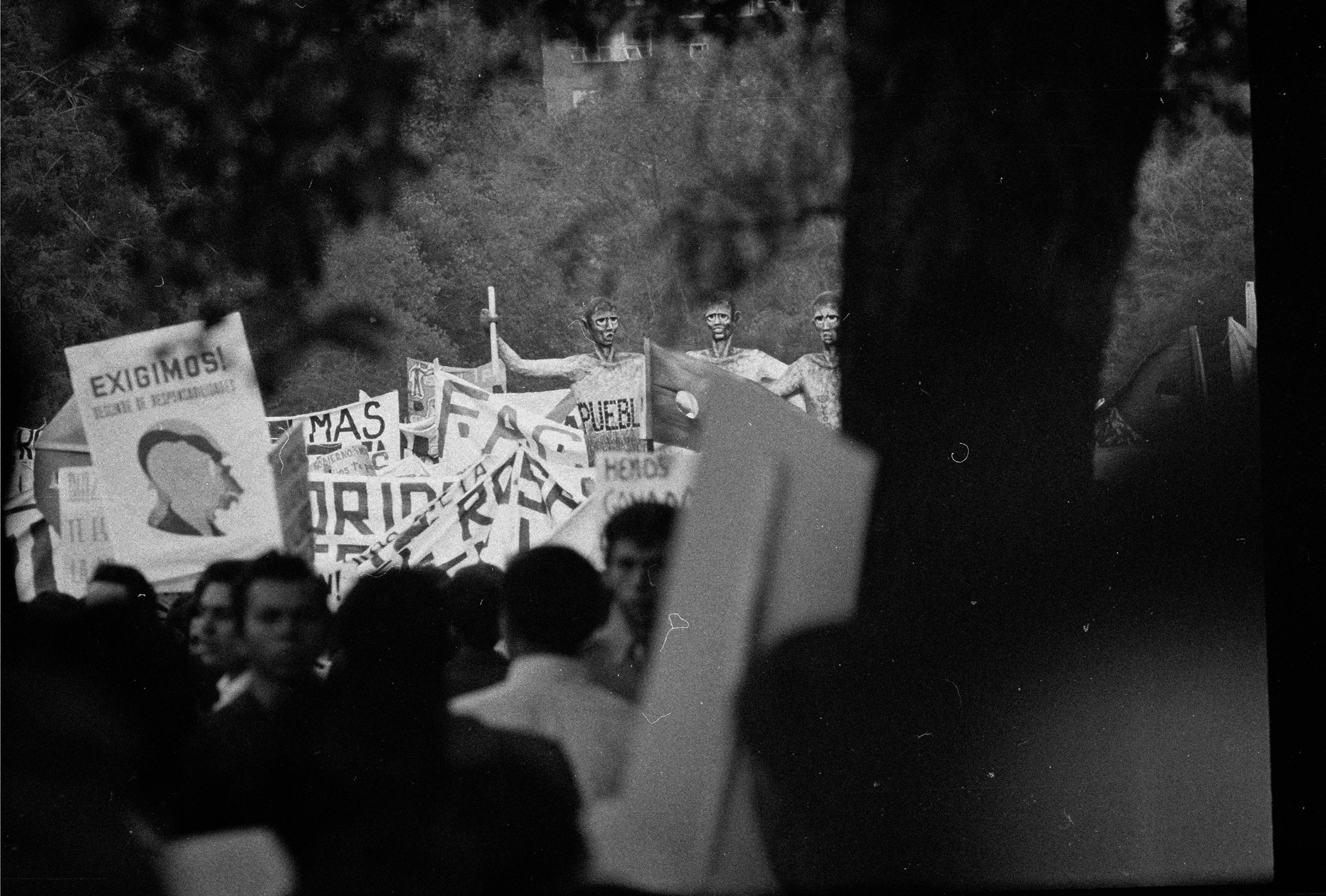 Images of Mexico City Student Movement, October 1968.